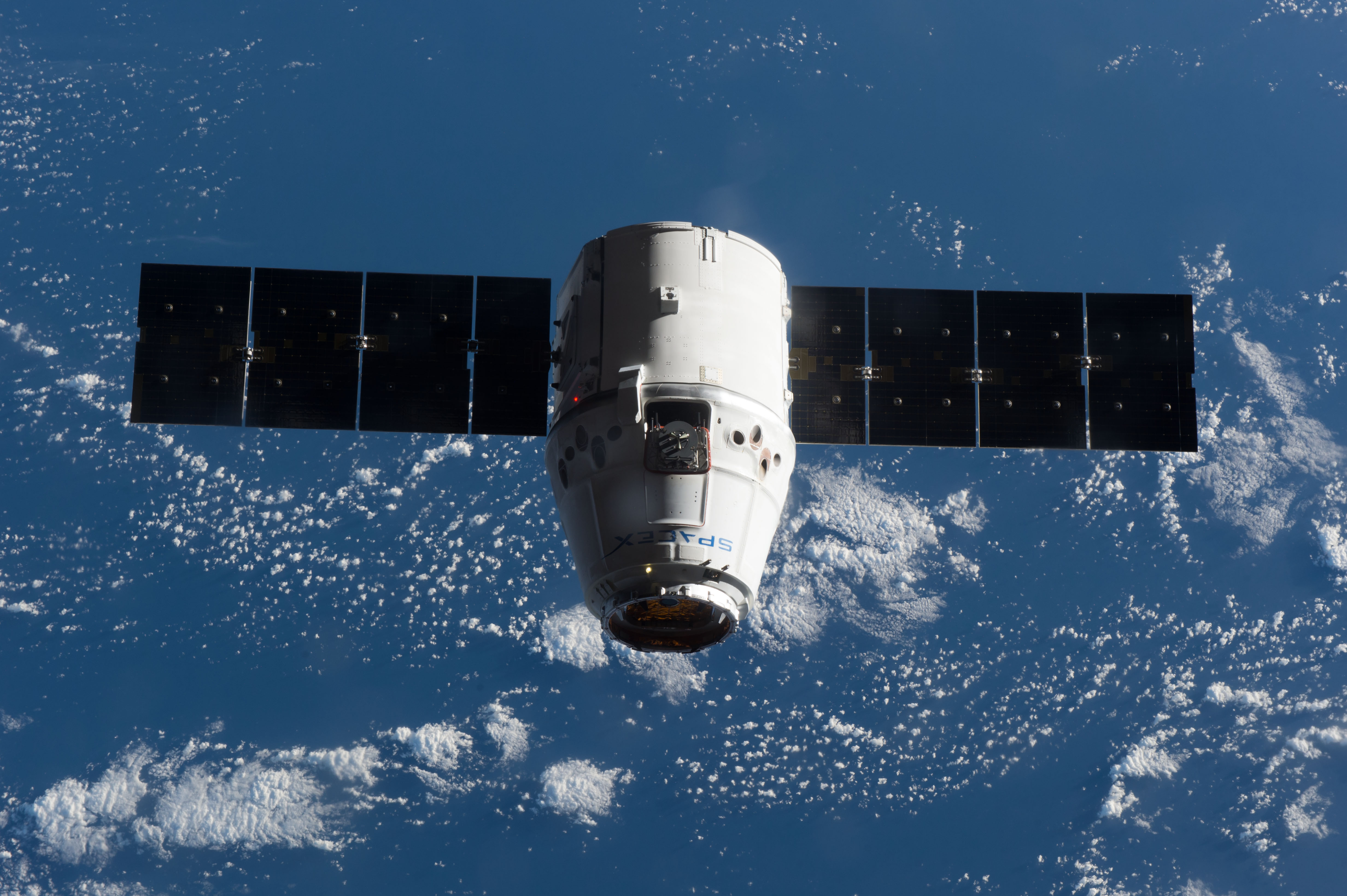 Iss050e052128 (02/23/2017) --- SpaceX's Dragon cargo craft is seen during final approach to the International Space Station. The commercial spacecraft launched on Feb. 19 and carried about 5,500 pounds of experiments and supplies to the orbiting laboratory. Expedition 50 crew members Thomas Pesquet and Shane Kimbrough used the station's Canadarm2 robotic arm to capture Dragon, then handed command over to ground controllers to attach Dragon to the station.